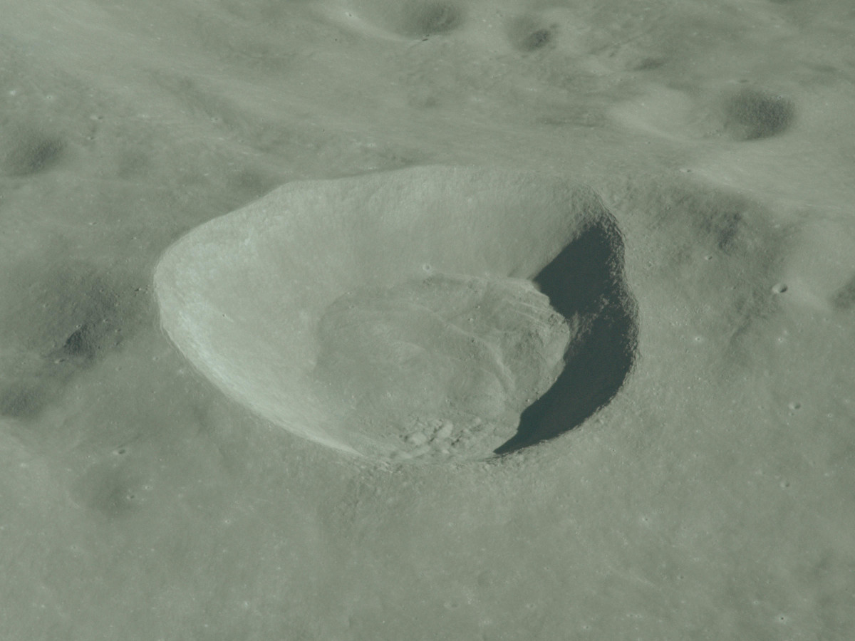 Oblique view of Ventris M crater, south of Ventris crater, on the far side of the moon.